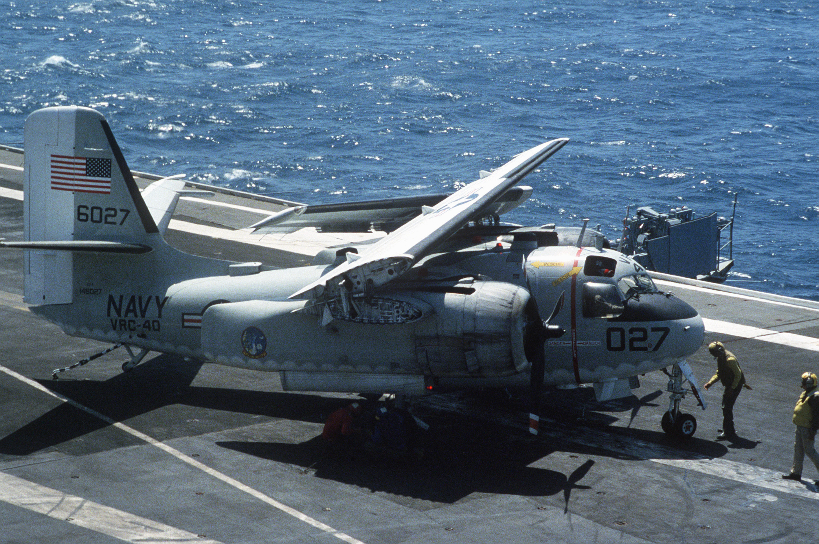 A U.S. Navy Grumman C-1 Trader aircraft (c/n 57, BuNo 146027) from fleet logistic support squadron VRC-40 Rawhides aboard the training aircraft carrier USS Lexington (AVT-16), 24 October 1985. This aircraft was retired to the MASDC as 7C0019 on 3 December 1985.